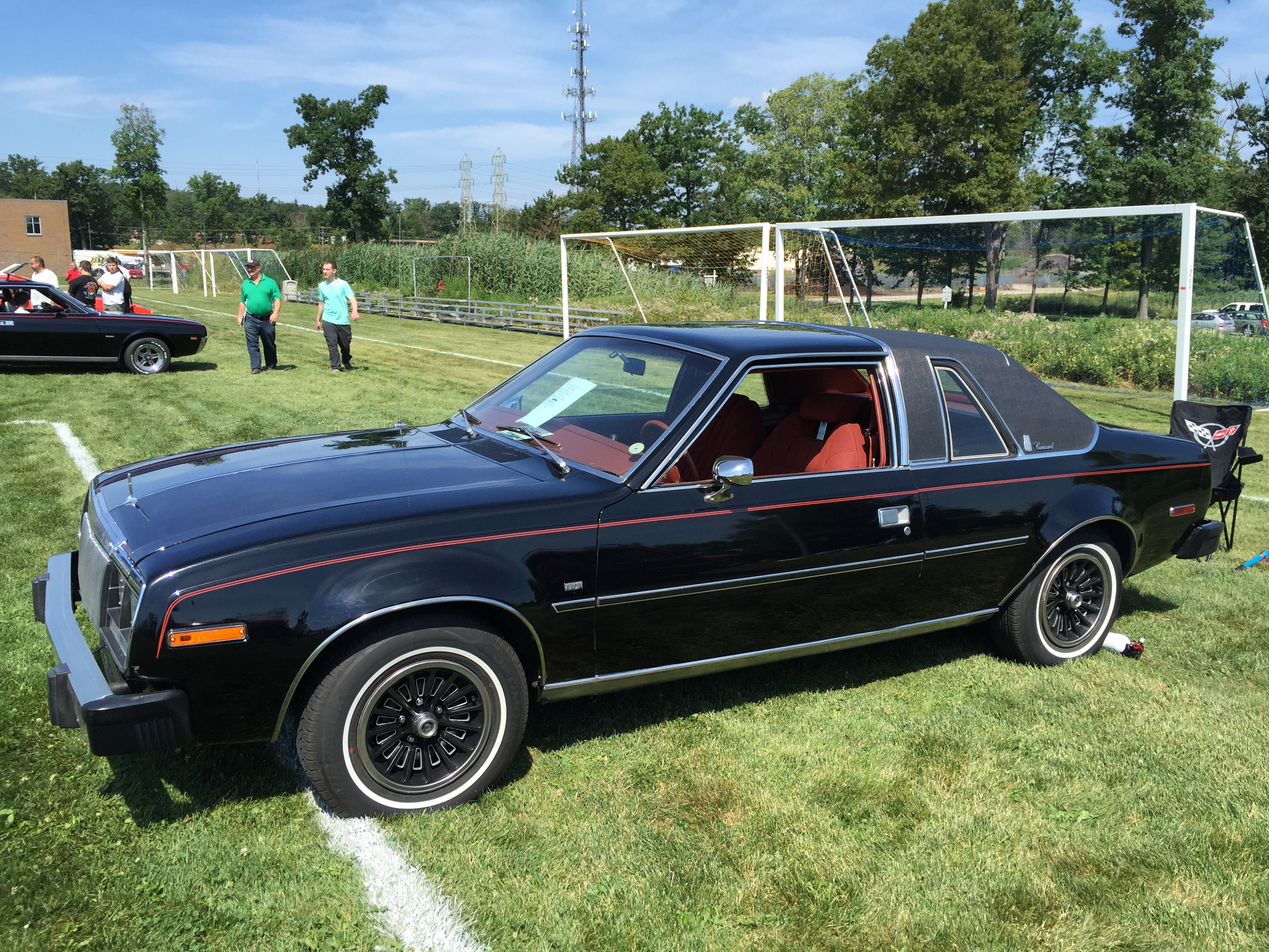 1979 AMC Concord two-door sedan, an innovative "luxury" compact built by American Motors Corporation. This D/L model is finished in black paint with standard vinyl roof cover and a contrasting red standard plush upholstered and trimmed interior. Picture taken at the American Motors Owners Association (AMO) annual convention that was held July 2015 near Cleveland, Ohio.